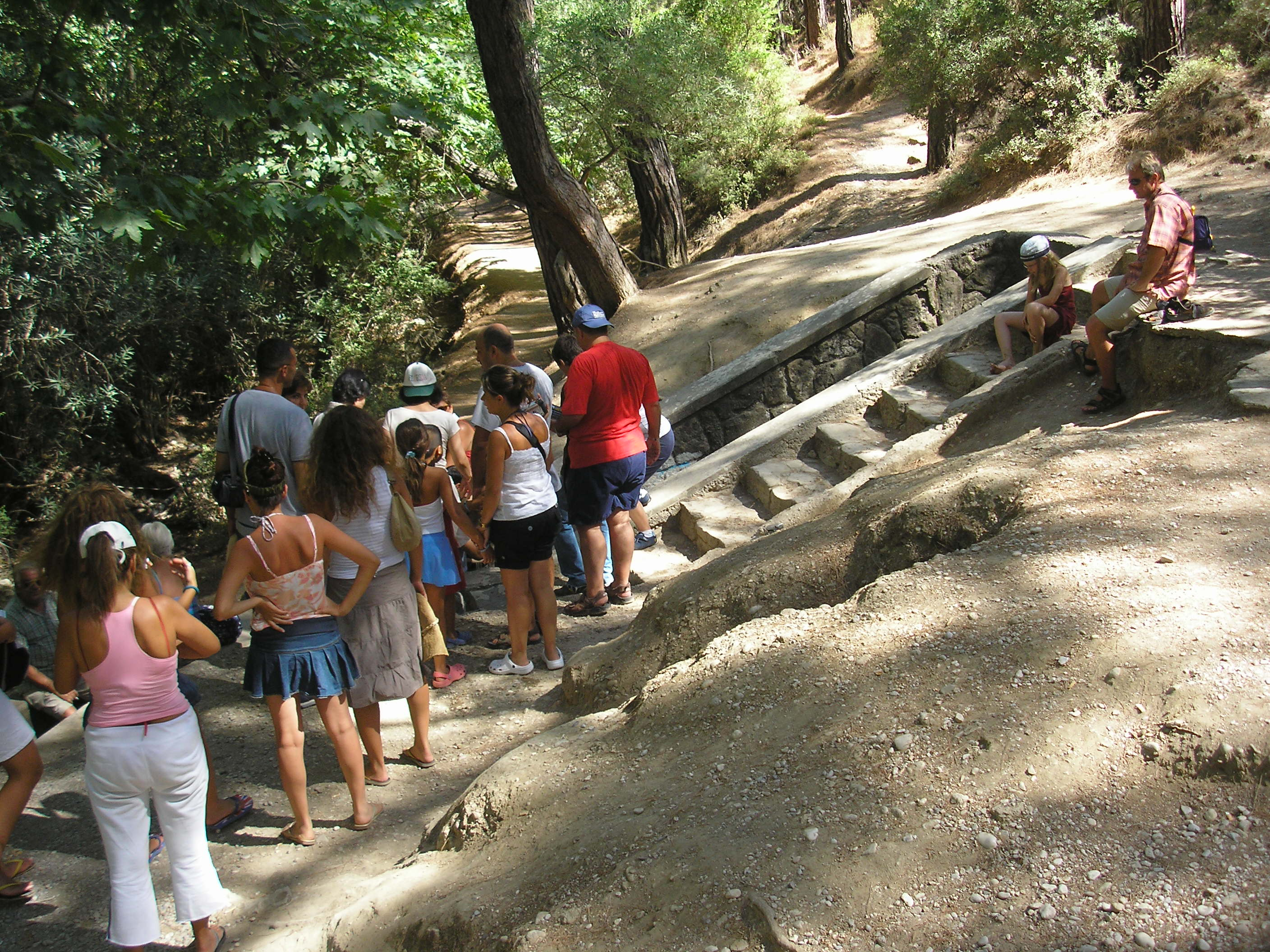 Epta Piges Tunnel, Rhodes, 2007